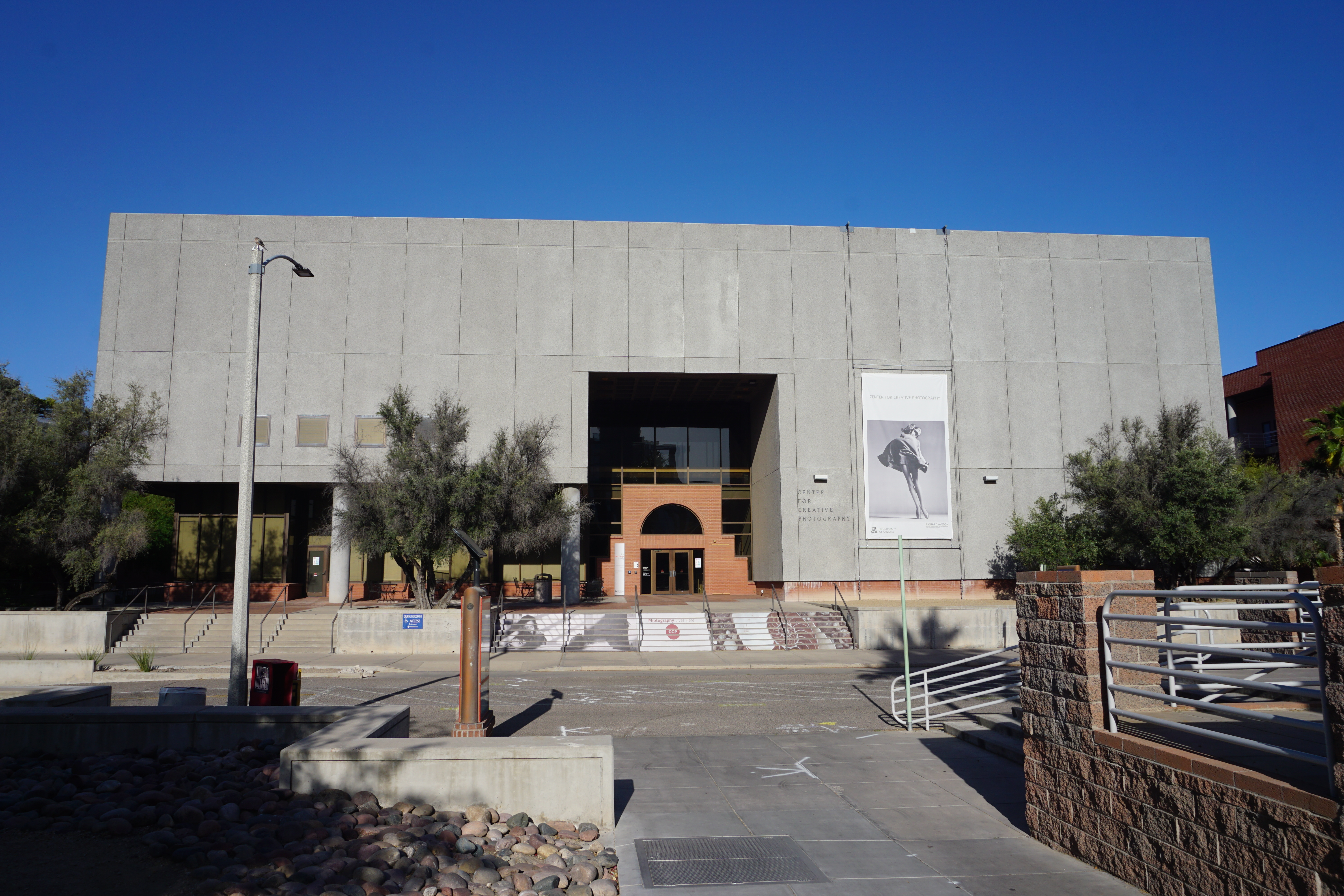 The John P. Schaefer Center for Creative Photography on the campus of the University of Arizona in Tucson, Arizona (United States).